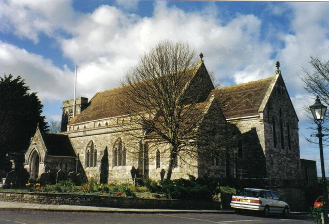 St George's parish church, Langton Matravers, Dorset, seen from the southeast